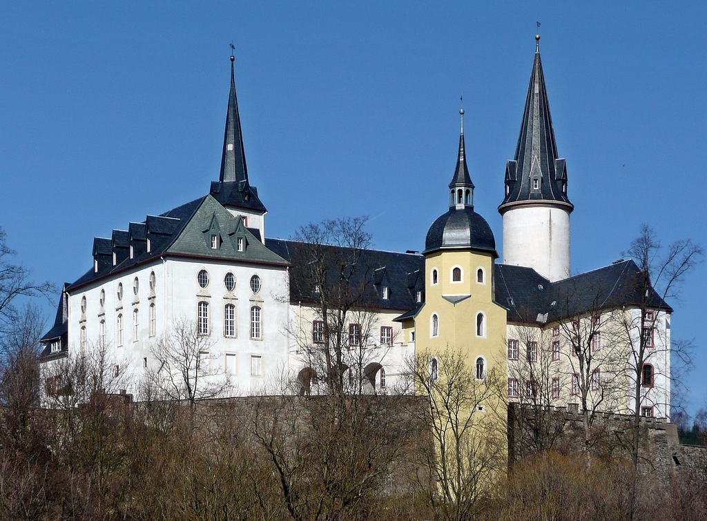 This photo shows Purschenstein Castle in Neuhausen in the ore mountains.